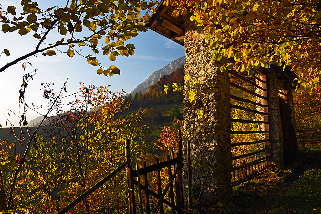 A typical Slovenian hay-rack in Torka village. In this region they are mostly built with stone pillars.